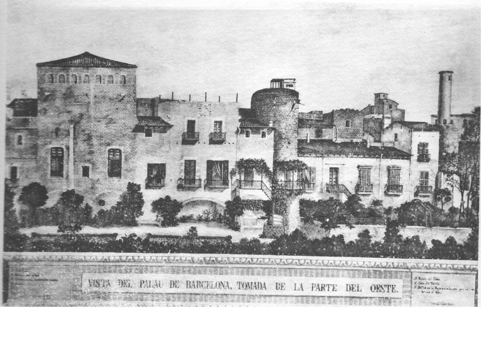 Image of one of the royal palaces of Barcelona, disappeared in the XIX century